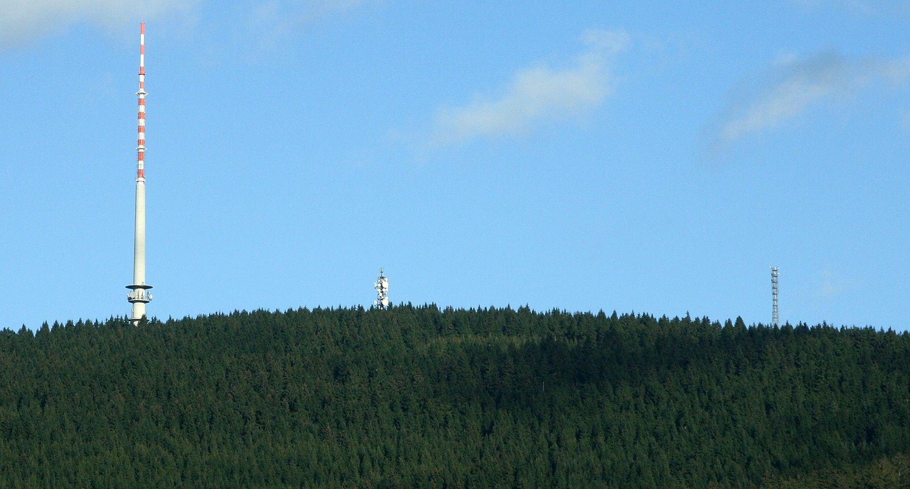 Transmitter, Radio Station 'Bleßberg'